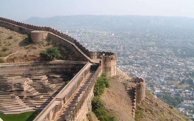 Nahargarh Fort